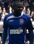 Scotland lining up against Millwall 30 October 2010. Picture taken by me IpswichTown95